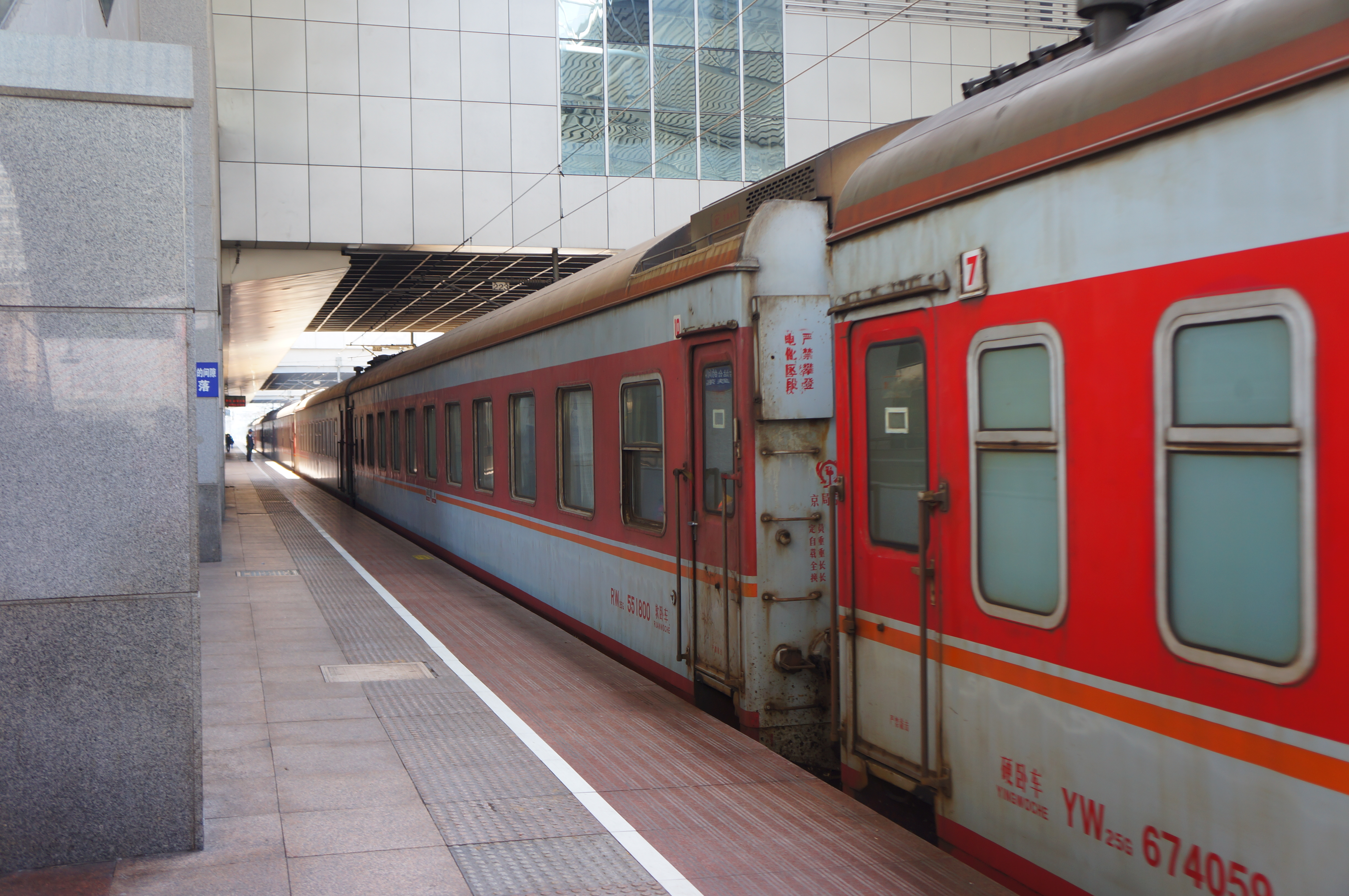 201704 Coaches of K233 at Shanghai Station